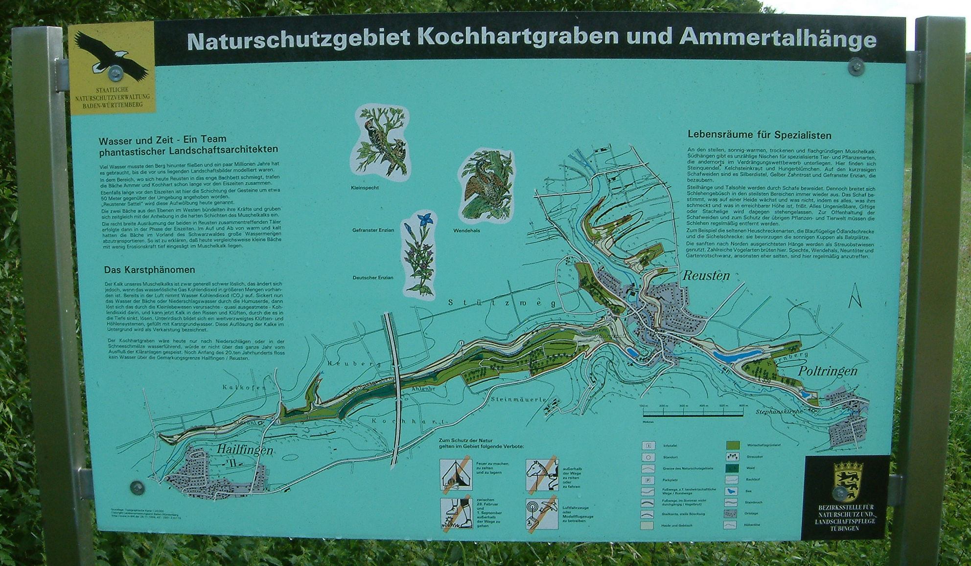 This is the information sign of the nature reserve "Kochhartgraben und Ammertalhänge"; Reusten, Ammertal